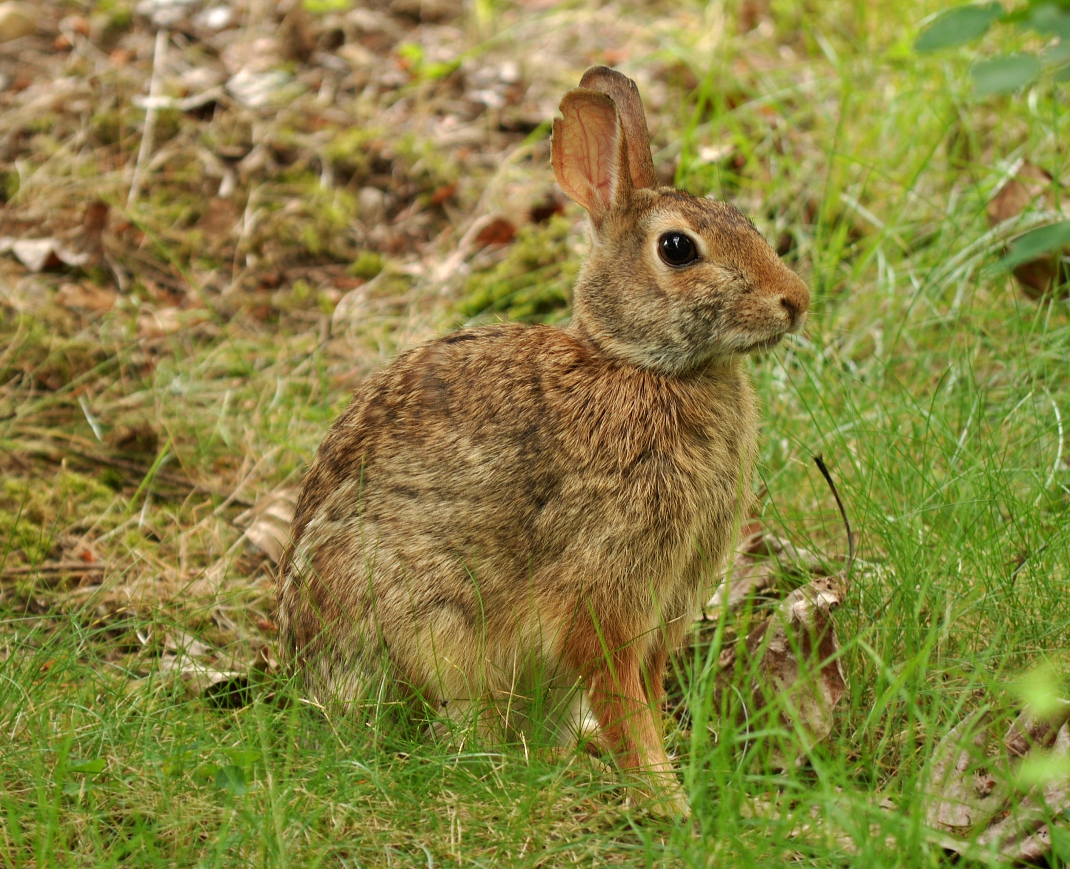 An Eastern Cottontail (Sylvilagus floridanus)